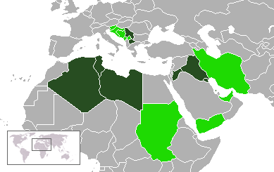 The dinar within recent years. Currently in use. Previously used.